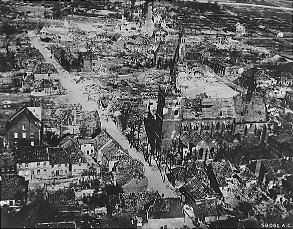 Sonsbeck (Sonsbeck), county of Wesel, Nordrhein-Westfalen, Germany, on 24 March 1945. Original description: This German town, in the path of General Montgomery's armies crossing the Rhine, has been torn by the passing battle. Hardly a building stands undamaged. The picture was made by a B-24 Liberator of the U.S. 8th Air Force Second Air Division that flew in at 200 feet to drop supplies to the 1st Allied Airborne Army that landed east of the Rhine from 1500 transports and gliders. March 24, 1945.""